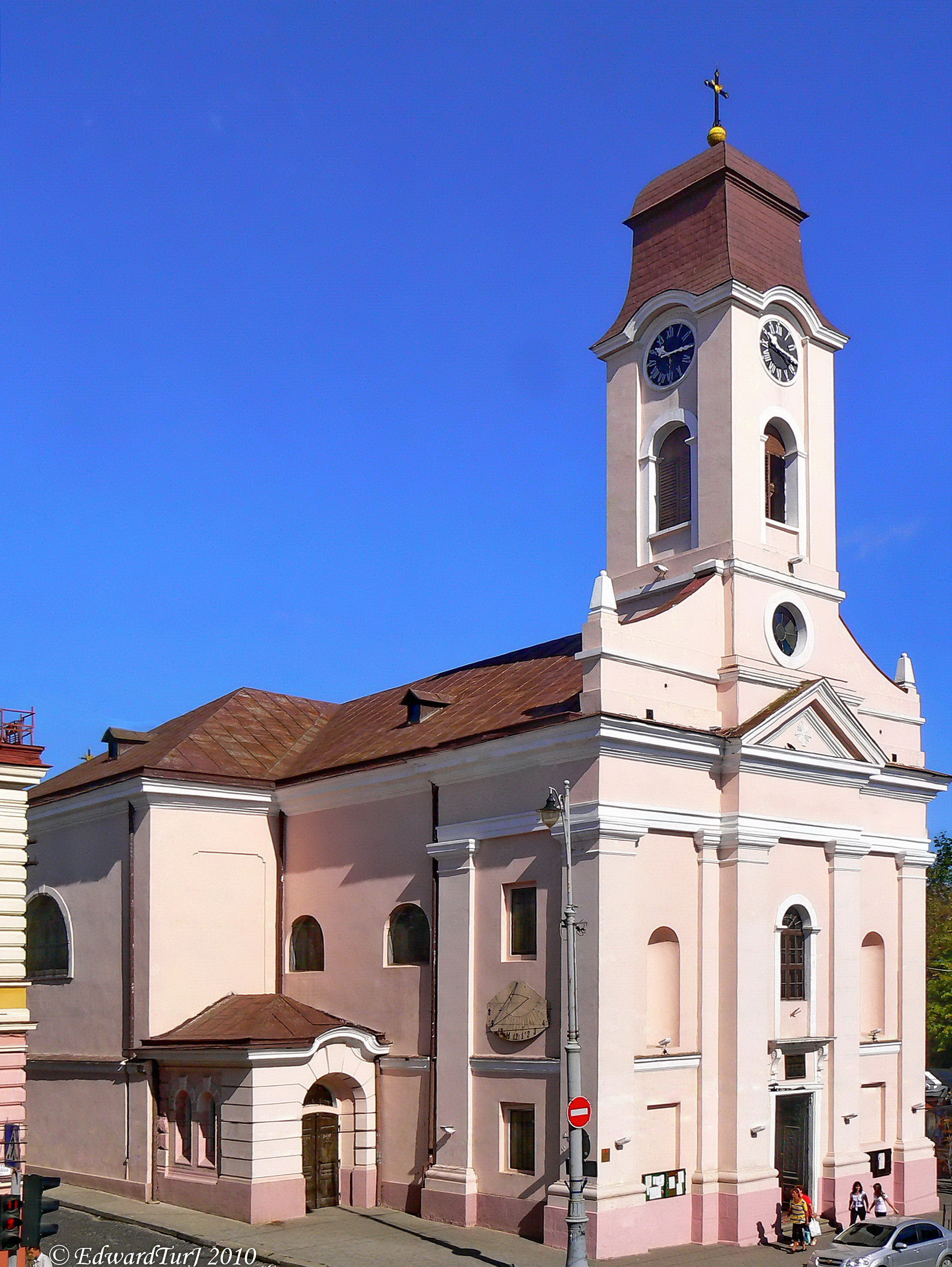 Congregation of Holy Cross Church (1814)